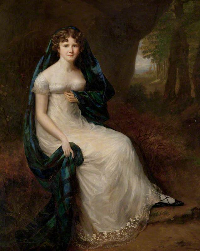 Elizabeth Brodie, wife of the 5th Duke of Gordon, small full length, wearing a white empire waist dress with a plaid of Gordon tartan loosely draped over her head and left shoulder, seated in a park (pr with the 5th Duke of Gordon portrait). "Elizabeth Brodie was born in 1794. She was the daughter of Alexander Brodie and Elizabeth Margaret Wemyss. She married General George Gordon, 5th Duke of Gordon, son of Alexander Gordon, 4th Duke of Gordon and Jane Maxwell, on 11 December 1813. She died on 31 January 1864. Her married name became Gordon. As a result of her marriage, Elizabeth Brodie was styled as Duchess of Gordon on 17 June 1827." [Peerage]